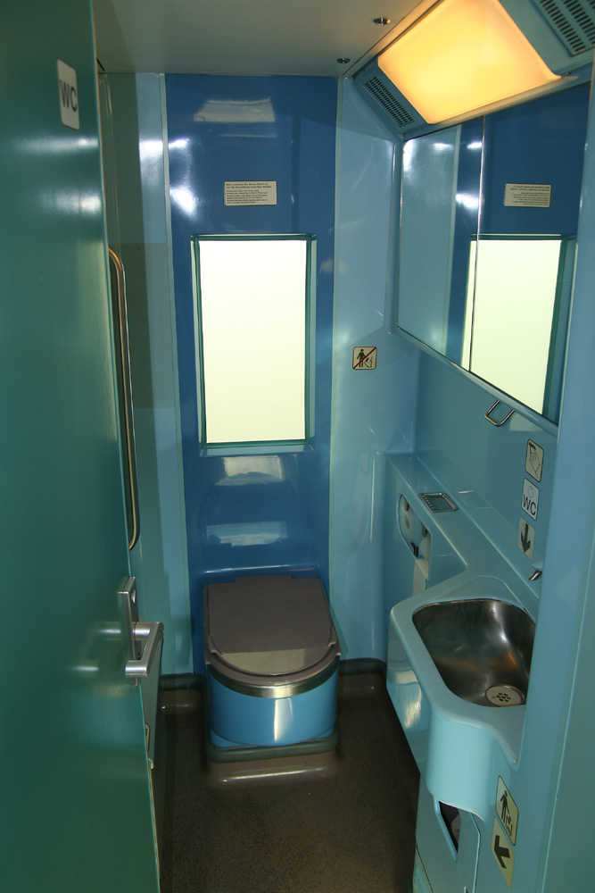 2nd class toilet on a not-yet-refurbished ICE 1 high-speed train